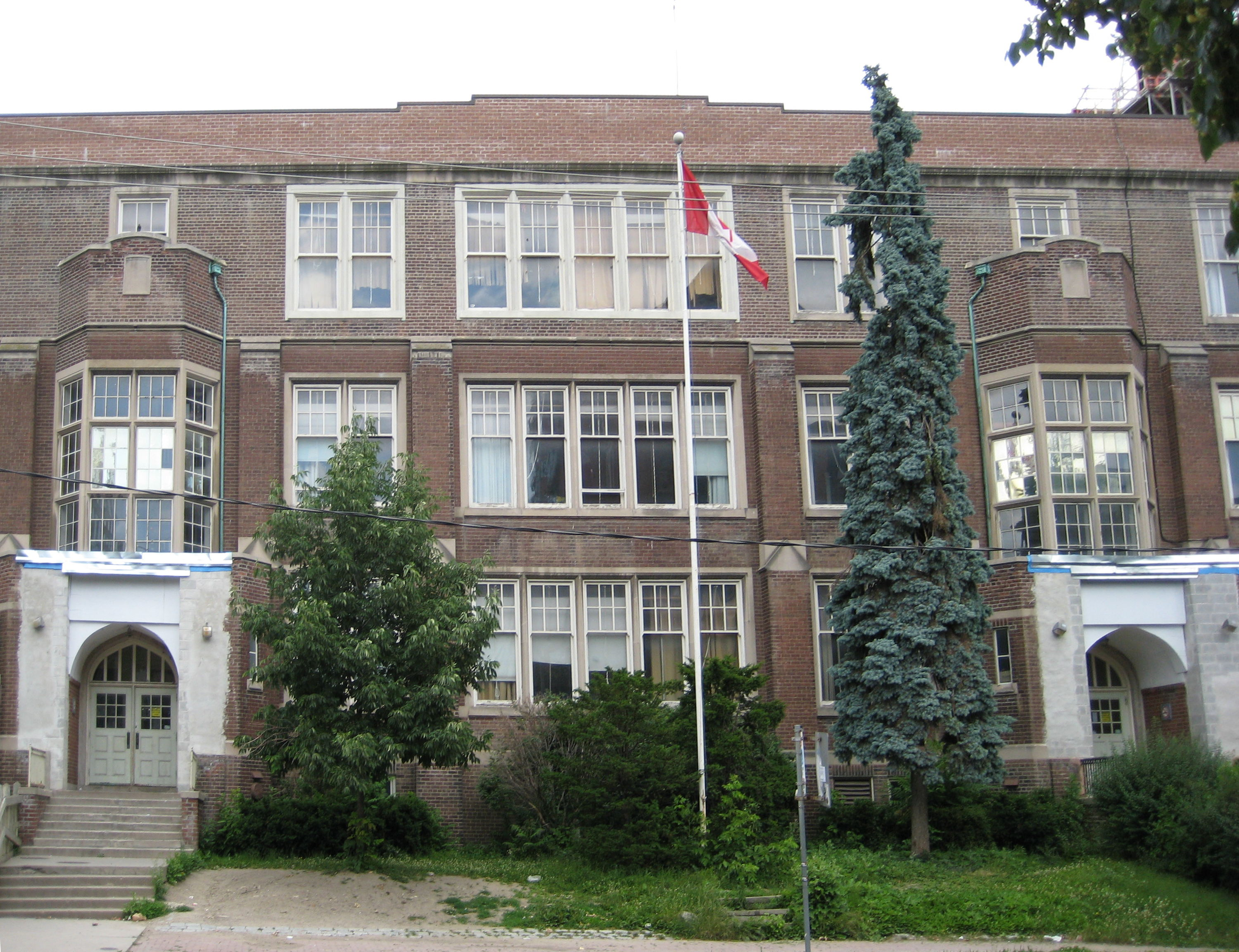 The former building of North Toronto Collegiate Institute before its demolition